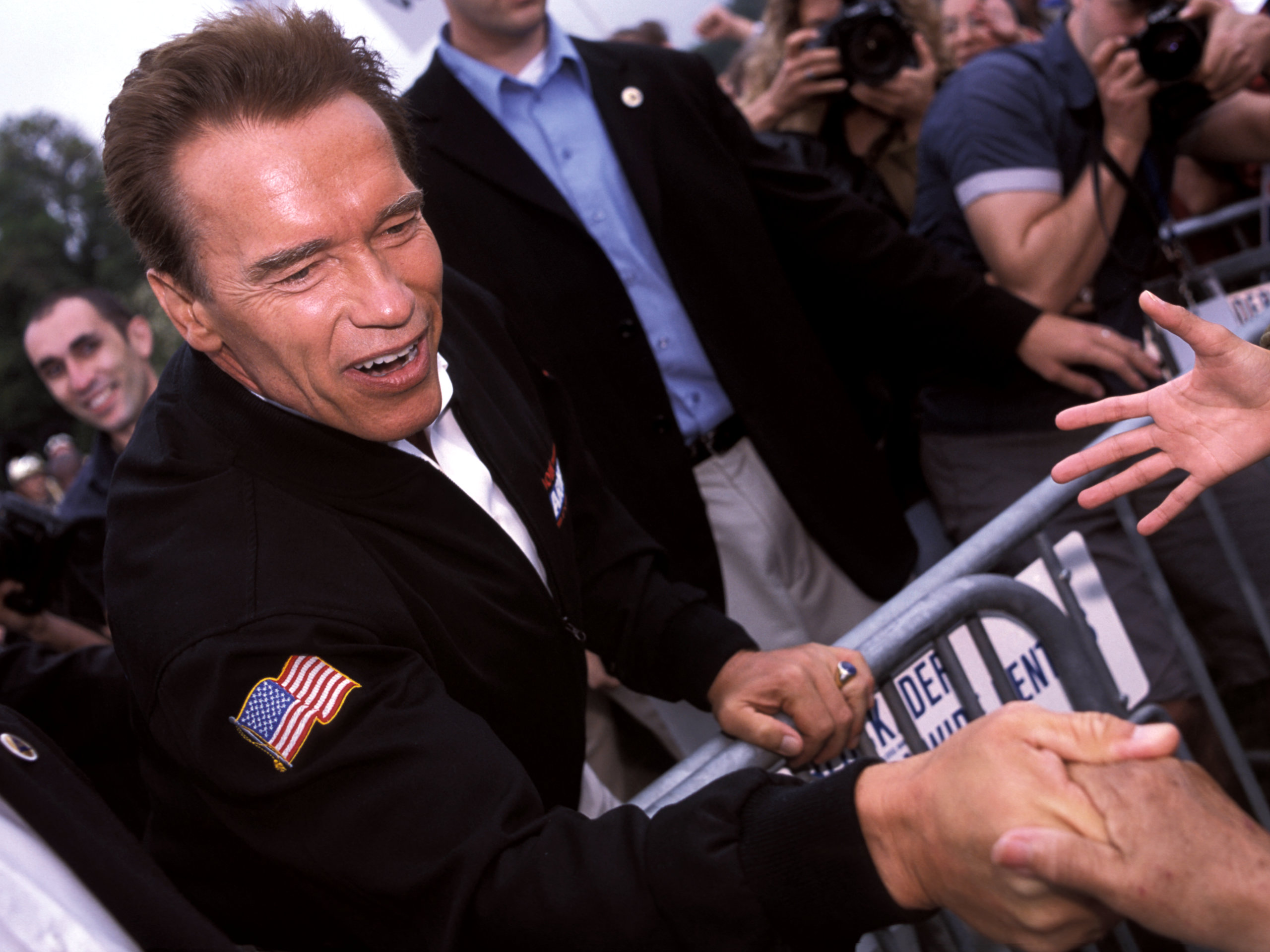 Arnold Schwarzenegger greets supporters at the Los Angeles Arboretum during a stop on his campaign for governor of Califonia, 2003.